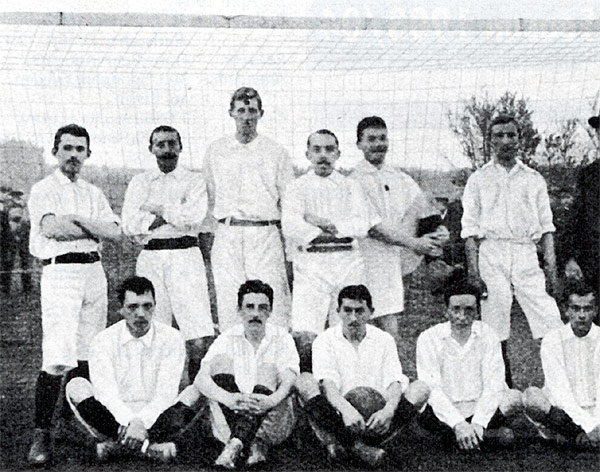 VfB Leipzig squad 1901. (Back): Rößler, Schöffler, Raydt, Braune, Keßler, W. Friedrich; (Front): Leine, Stanischewsky, Haferkorn, Harbottle, Riso.